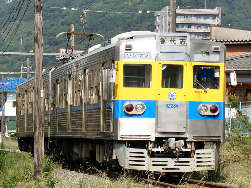 Kumamoto Electric Railway (Kumaden) 6000 Series train.